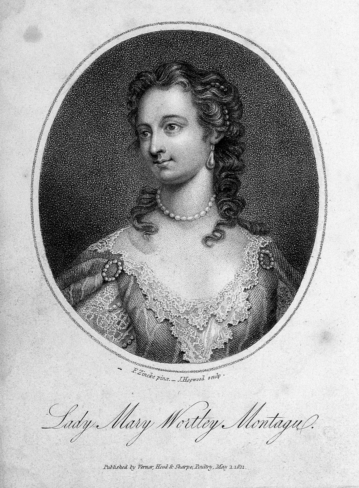 Portrait of Lady Mary Wortley. Iconographic Collections Keywords: Lady Mary Wortley Montague; H. Hopwood; Zincke